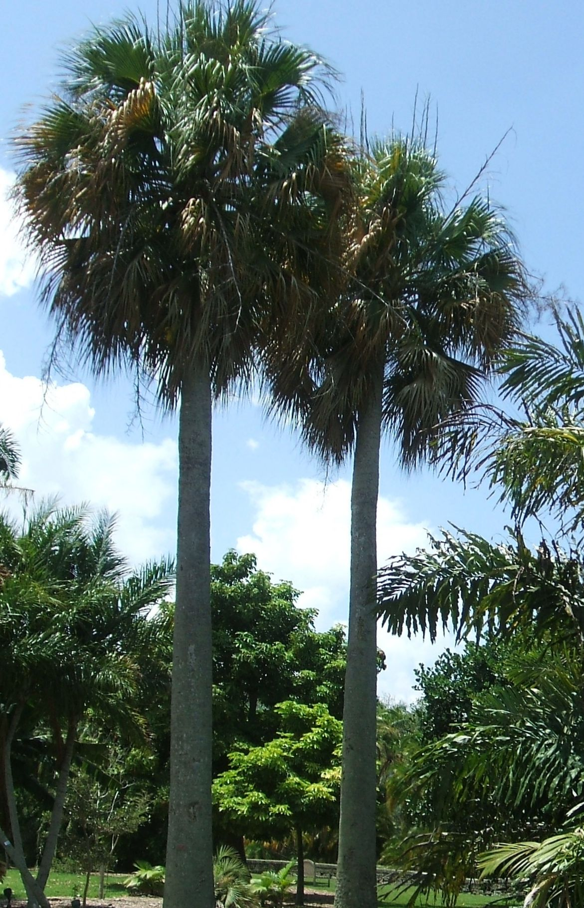 Sabal causiarum at Fairchild Tropical Botanic Garden, Coral Gables, Florida, USA.